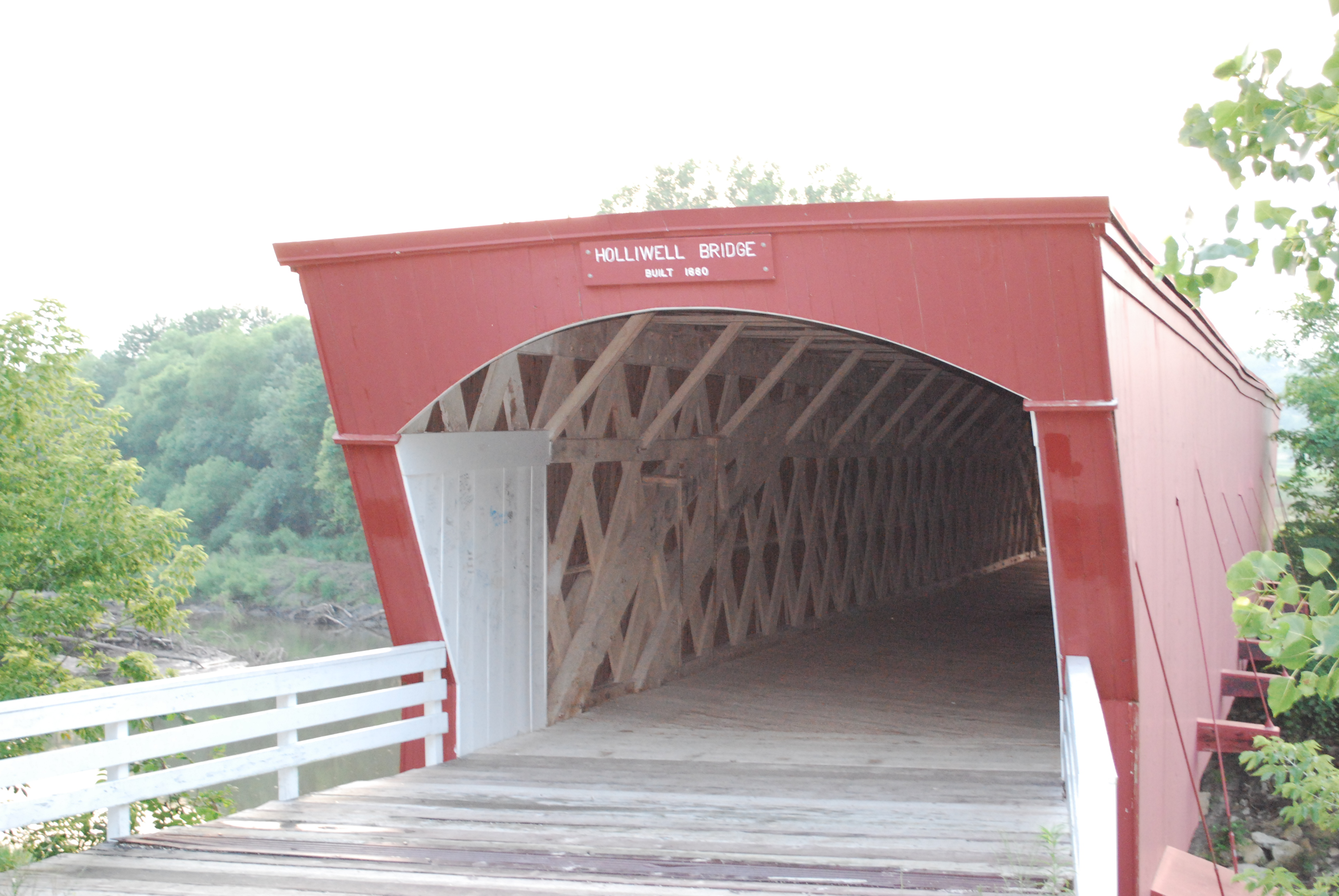 Holliwell Bridge of Madison County Iowa from the south end